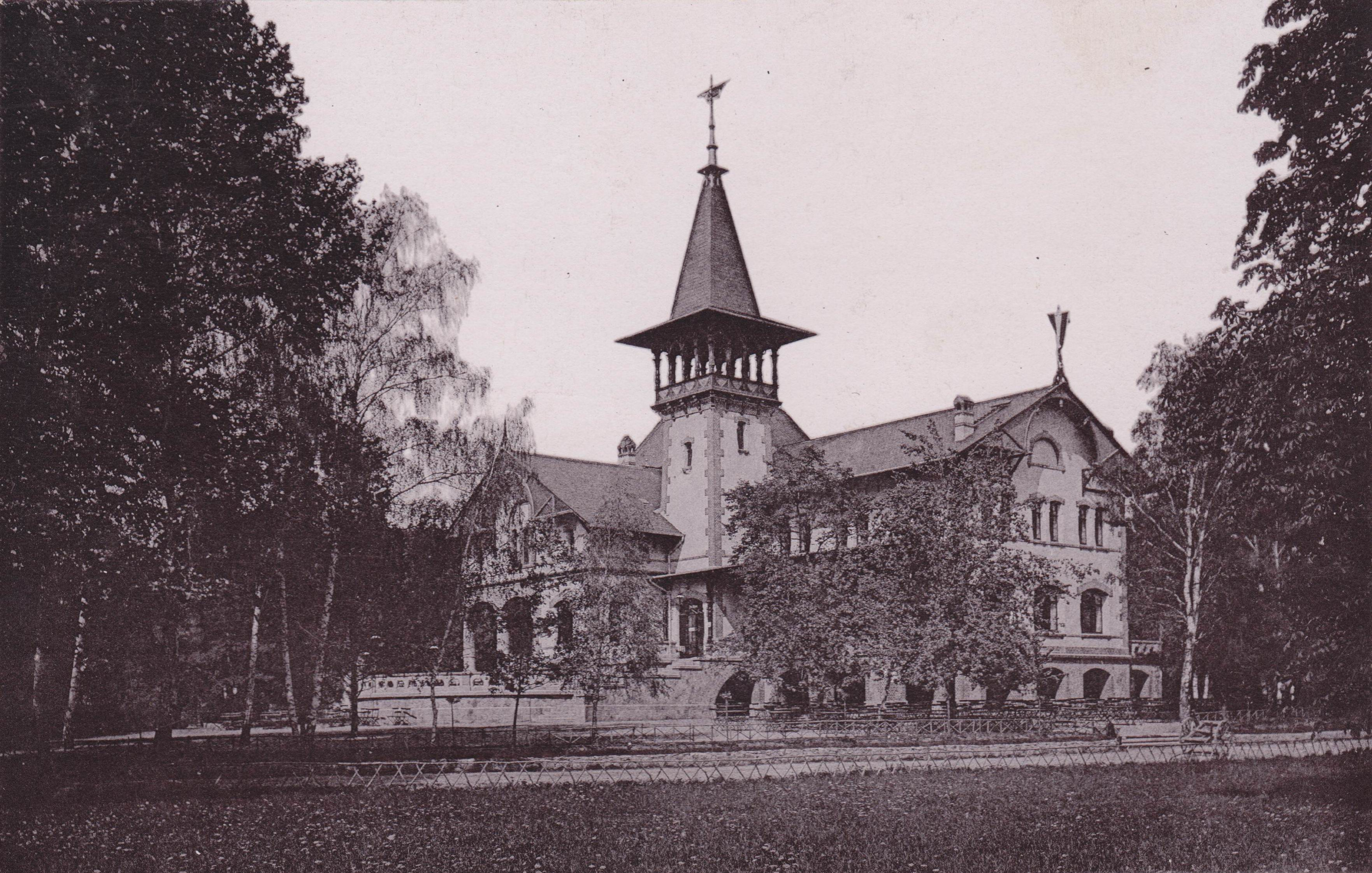 Peißnitz-House at the isle Peißnitz in Halle (Saale) - Germany